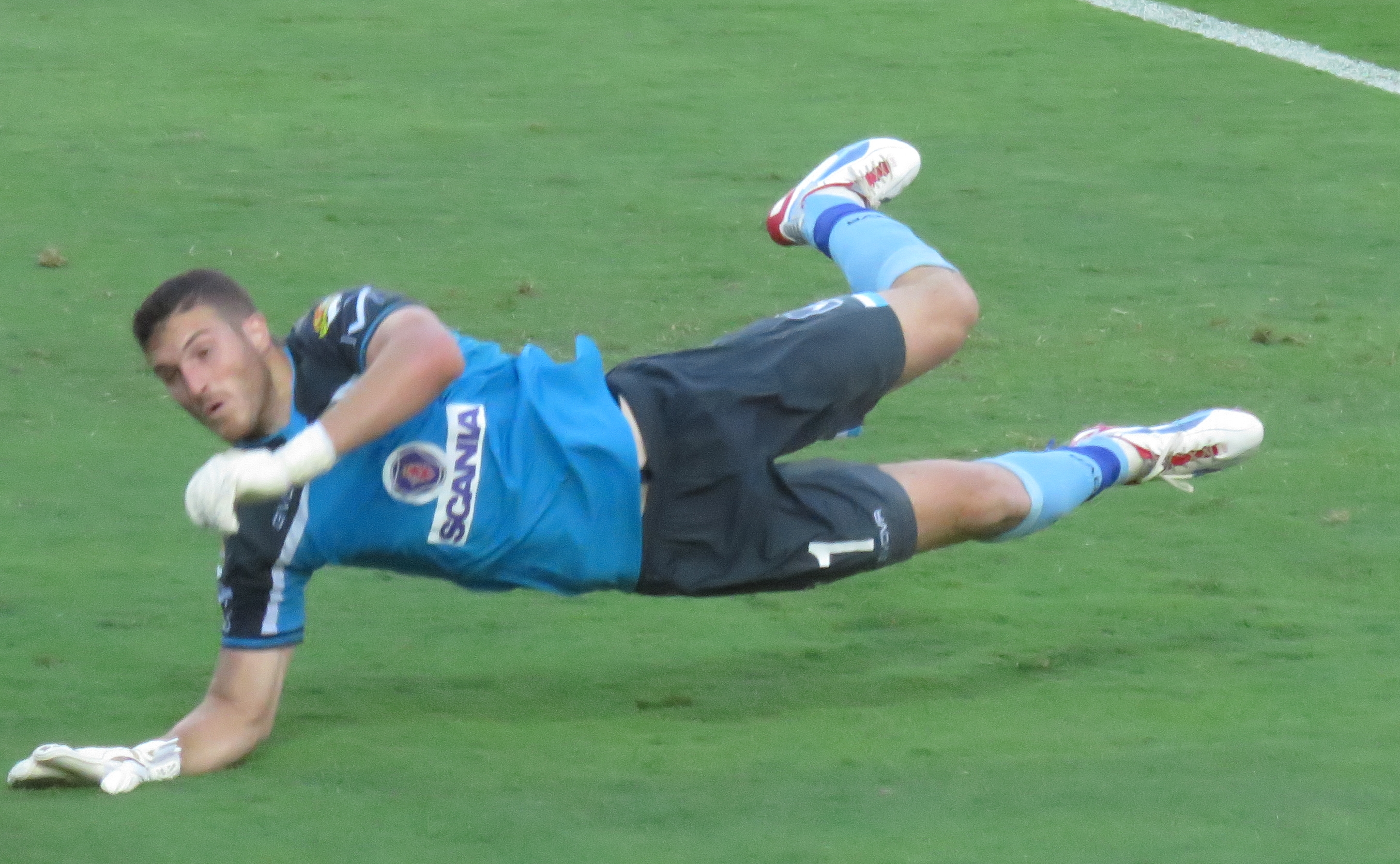 Maccabi Tel Aviv VS. Bnei Sakhnin 22/08/2015